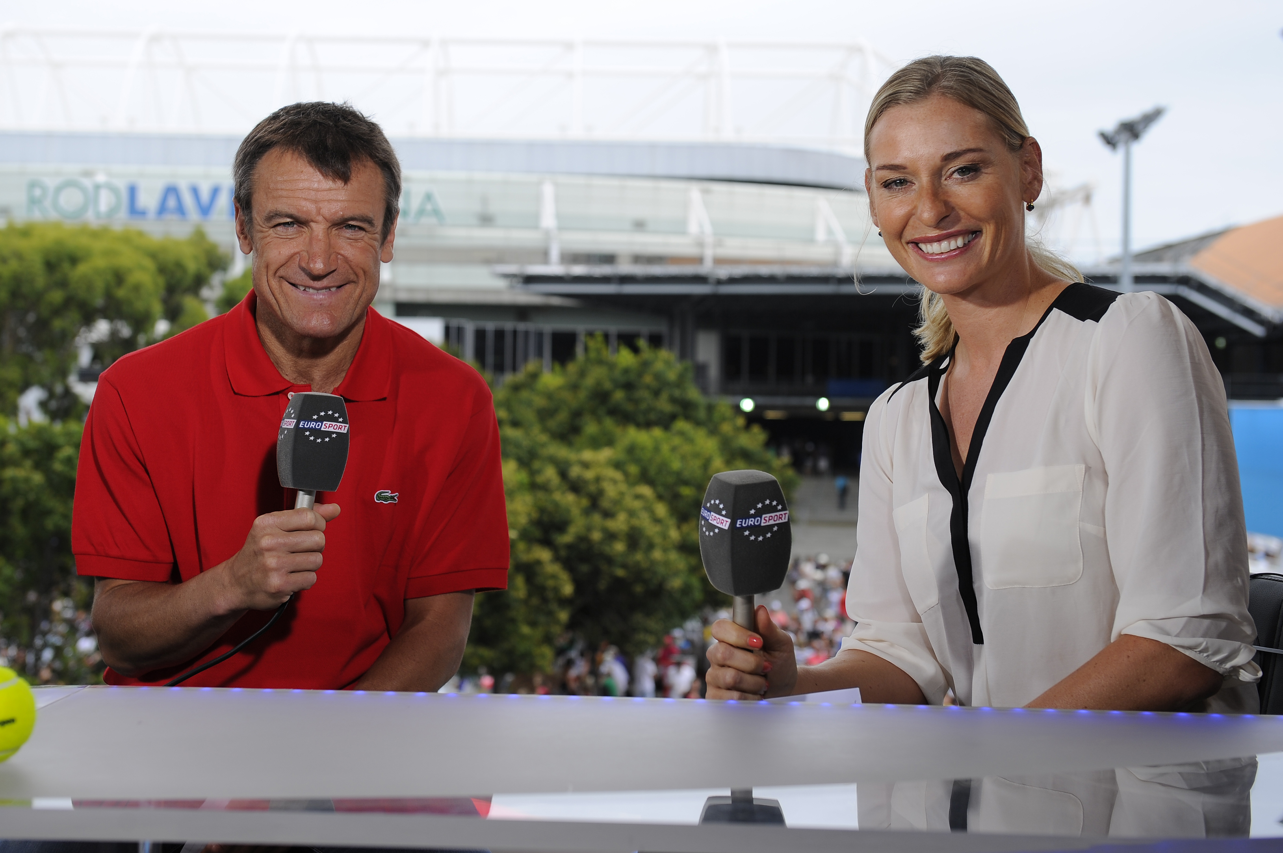 Mats Wilander and Barbara Schett in the Eurosport studio during the 2014 Australian Open at Melbourne Park.